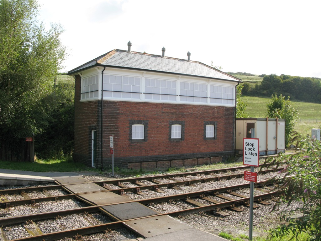 The disused signal box at Maiden Newton station, Dorset, England.